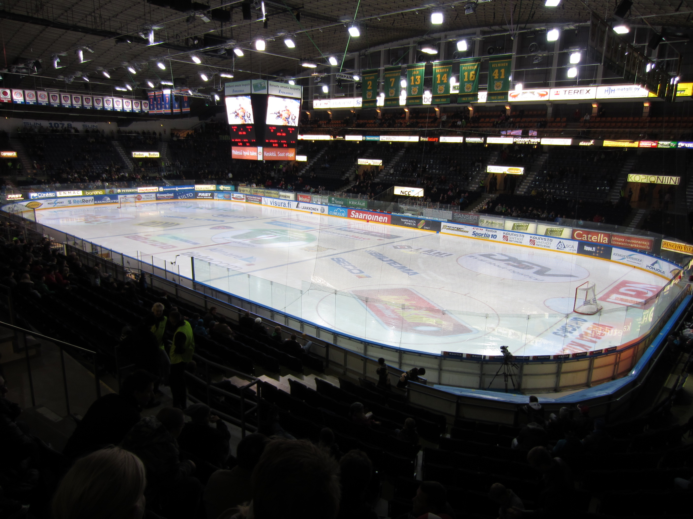 Interior of Tampere Ice Stadium in Tampere, Finland.